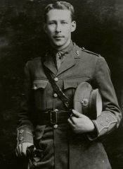 Photo of Victoria Cross recipient Coulson Norman Mitchell, migrated from the Victoria Cross Reference site with permission. Photo submitted by Gerald Napier - (from the Royal Engineers Library with permission).